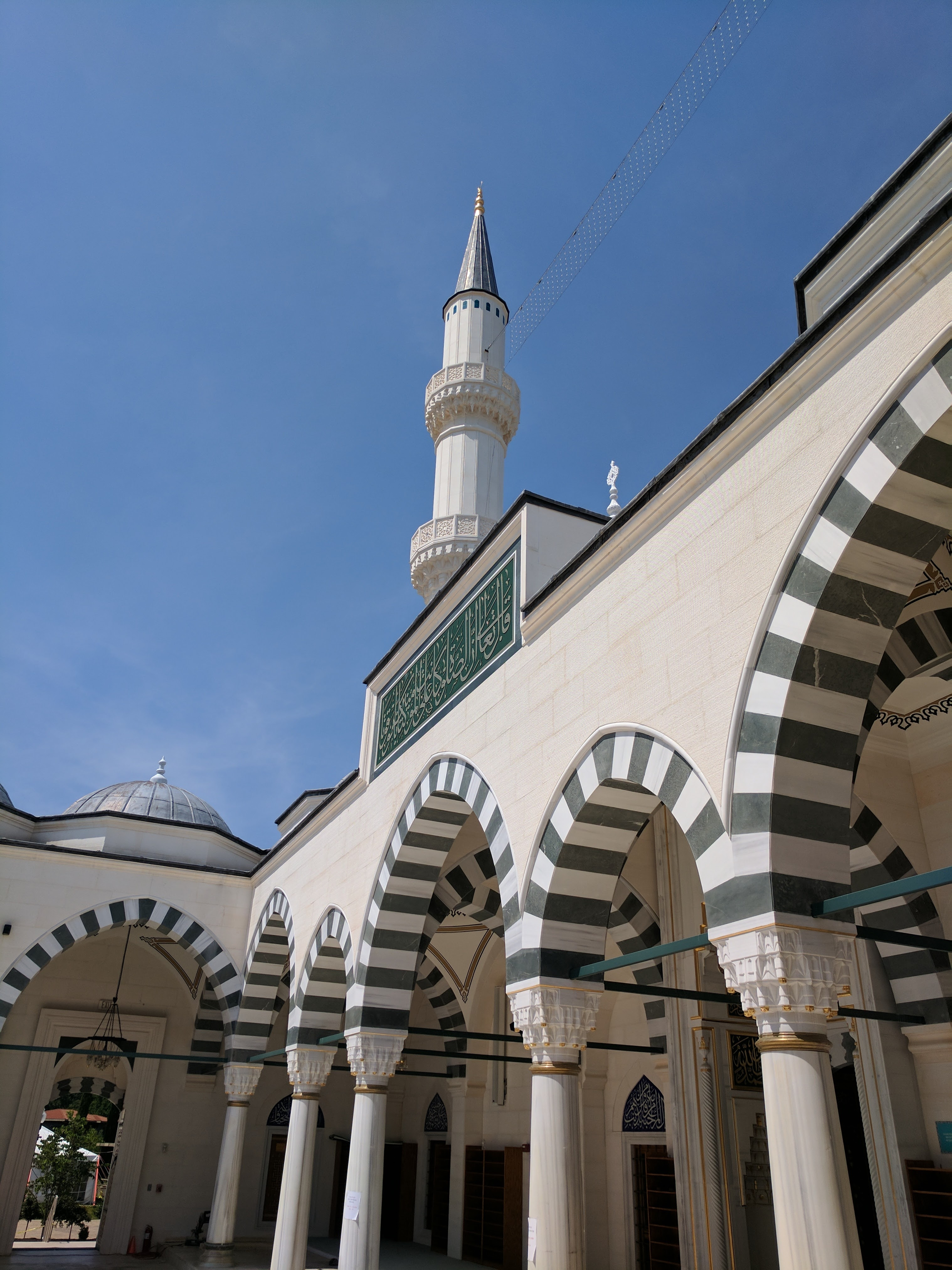 Photo from the courtyard of the Diyanet Center in Lanham, MD